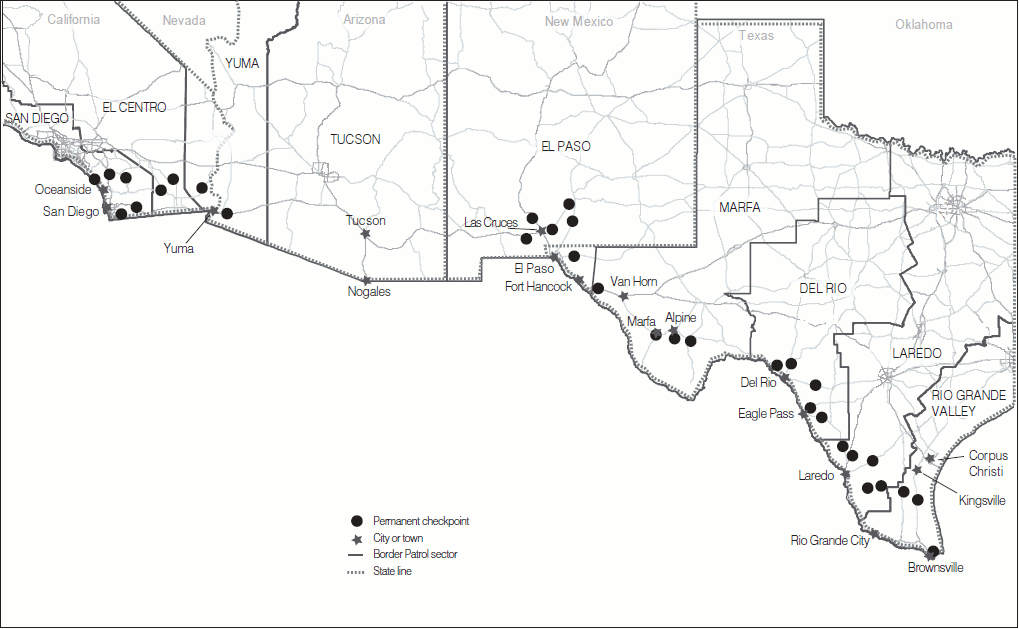 General Accounting Office map of permanent border checkpoints